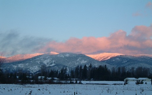 Sunrise over Kootenai, by Leopold Brubaker, own work, Winter 2006